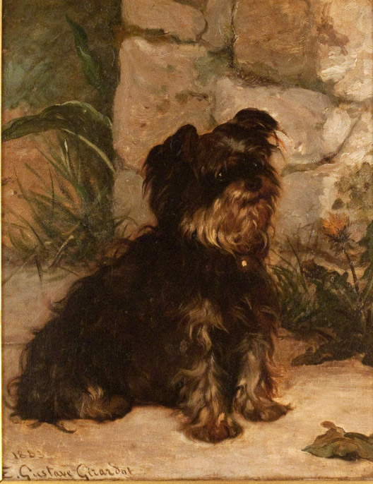 Portrait Of A Yorkshire Terrier, 1883